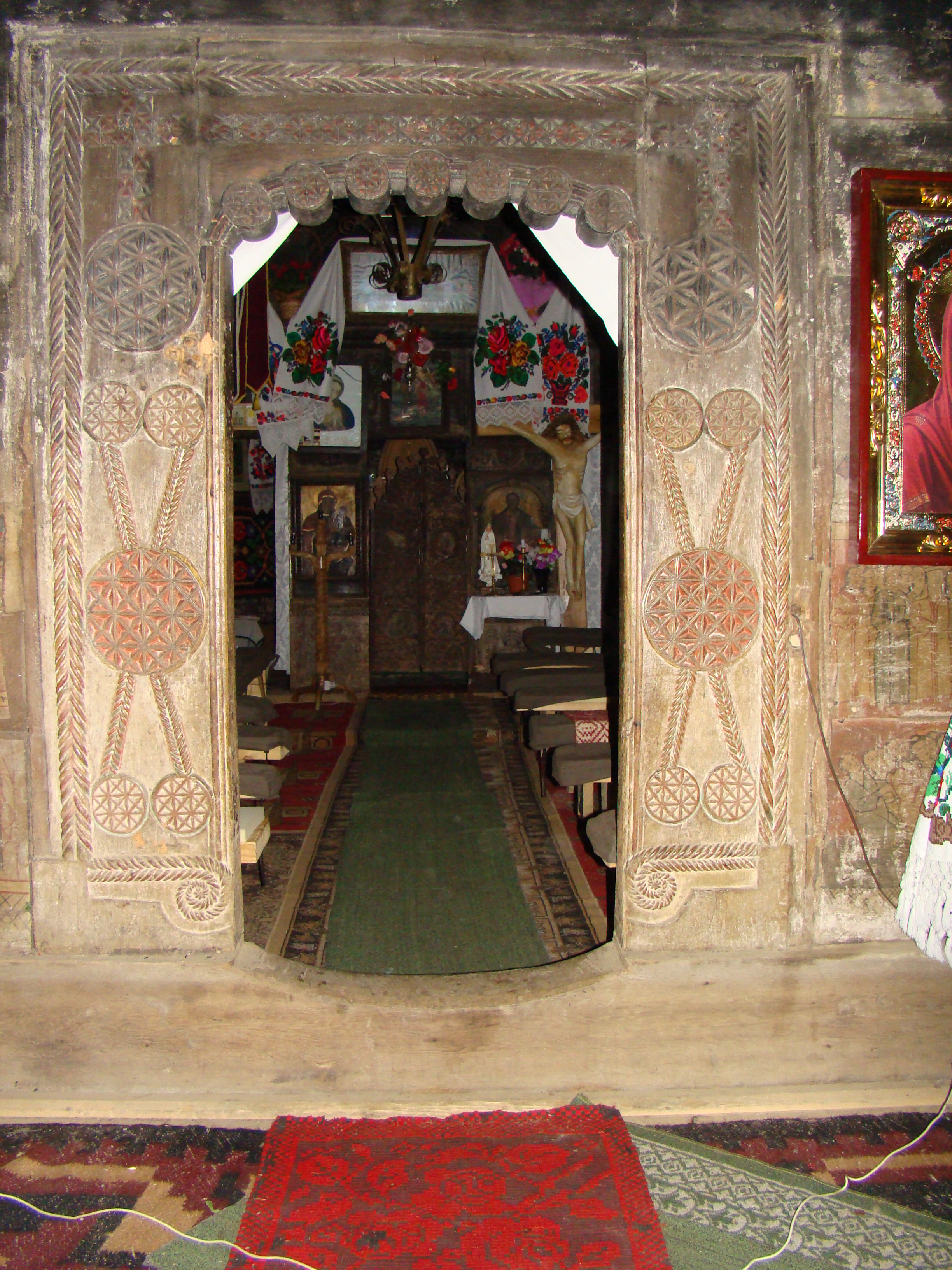 Wooden church in Lăpuş, MaramureşRomână: Biserica de lemn din Lăpuș